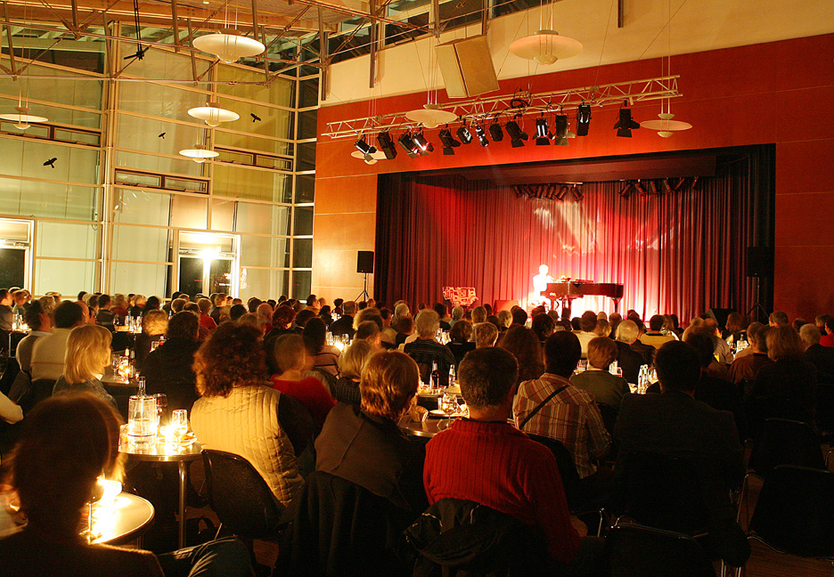 Tuttlinger Kraehe